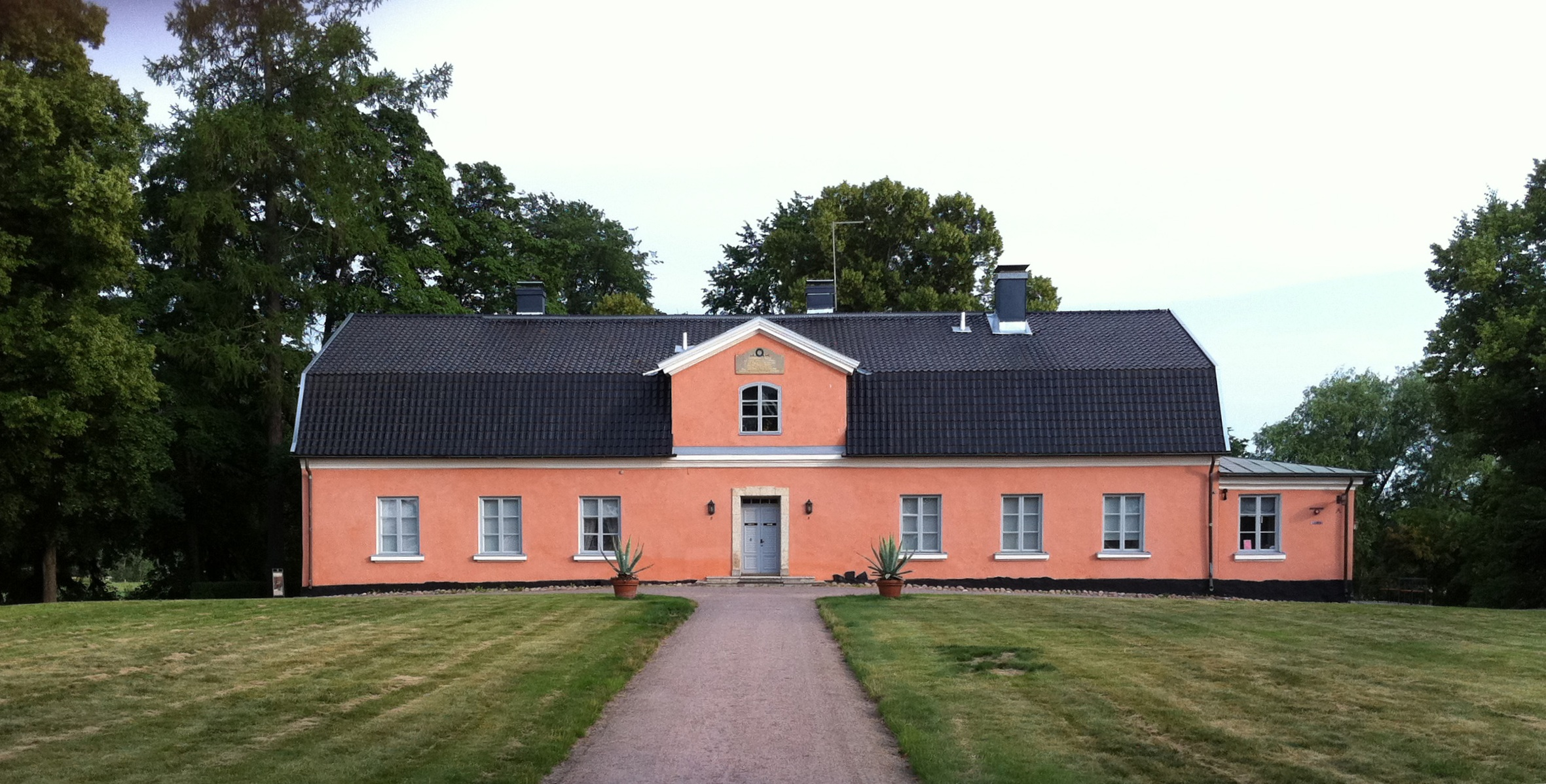 Tuomarinkylä Manor in Helsinki, built 1790.